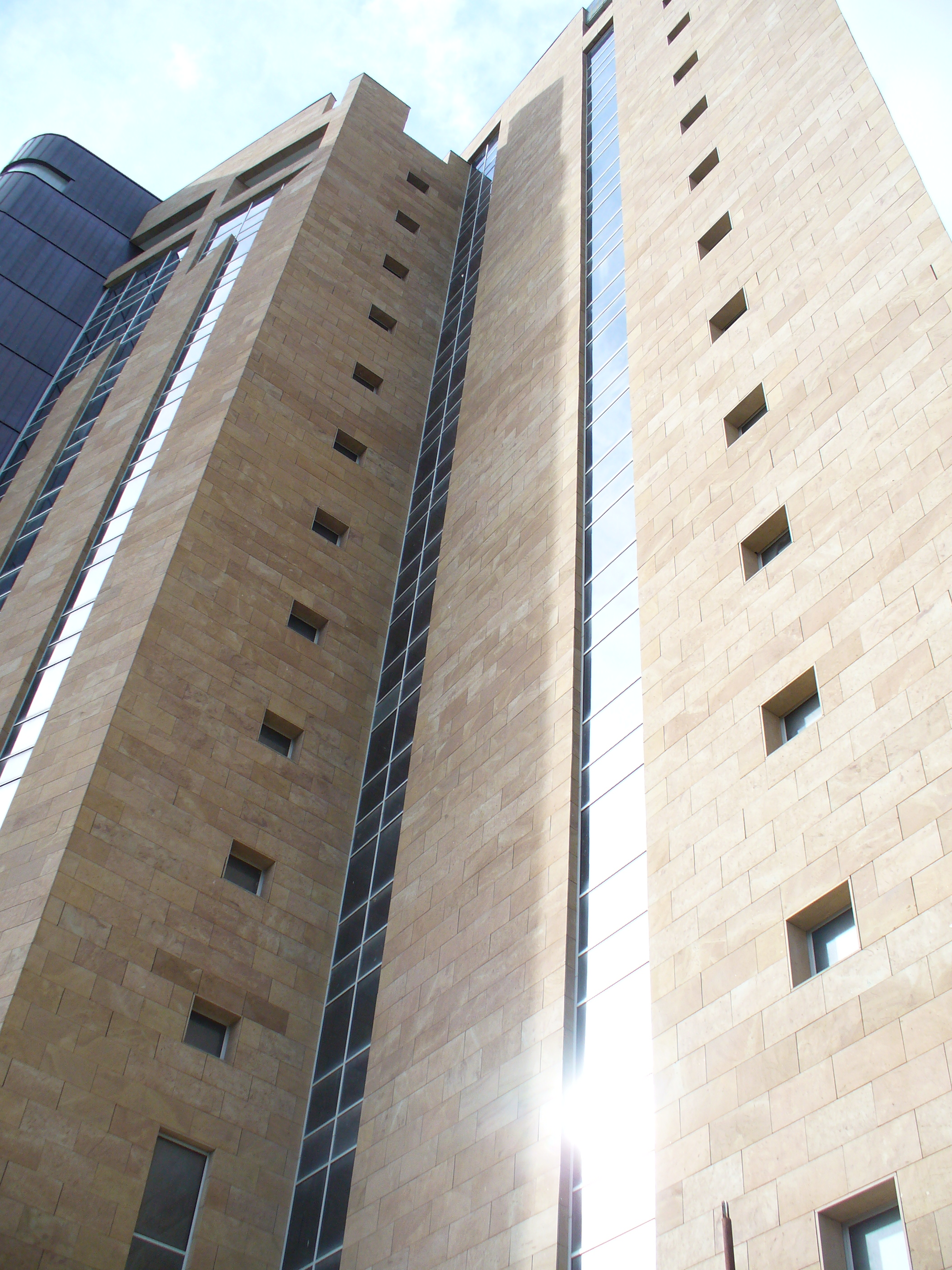 Palazzo di Giustizia (Florence)